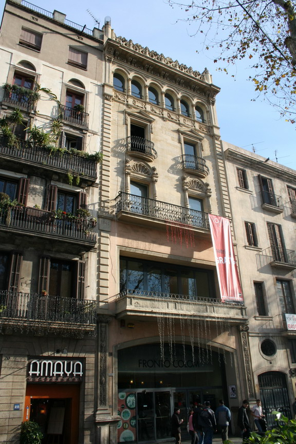 Frontó Colom, in Rambla de Santa Mònica in Barcelona